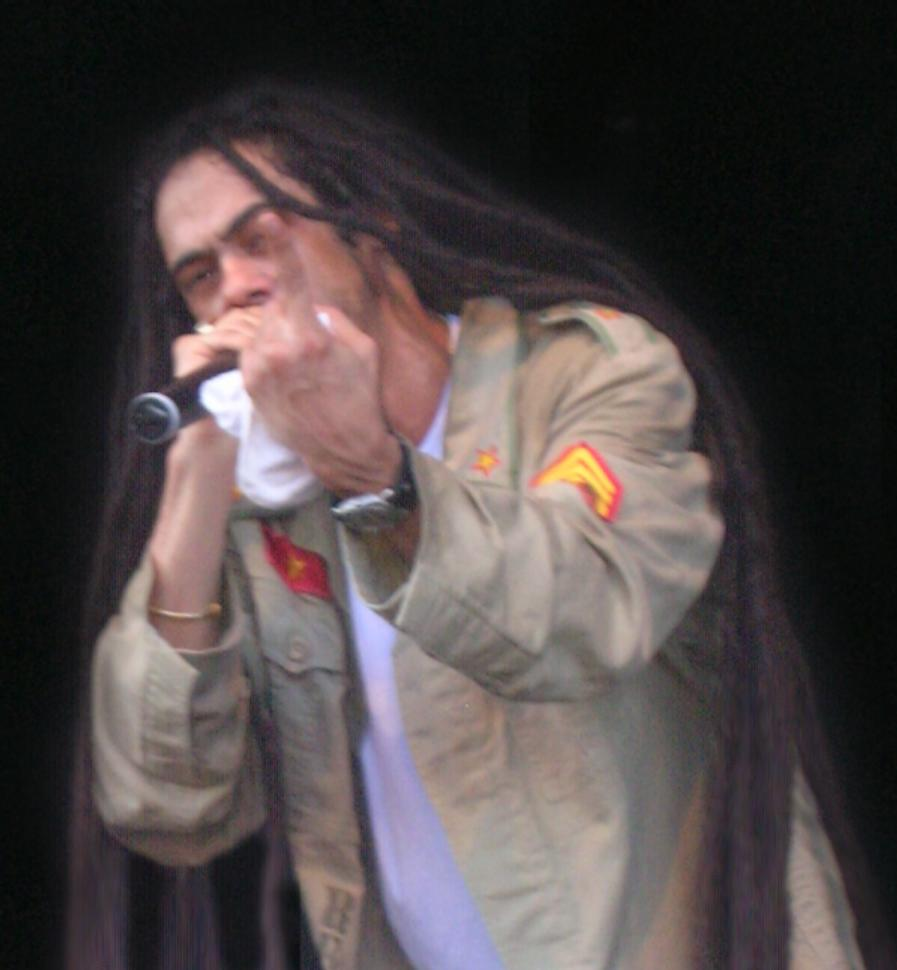 Photograph of Damian Marley. source: eigen werk date: 16-07-06